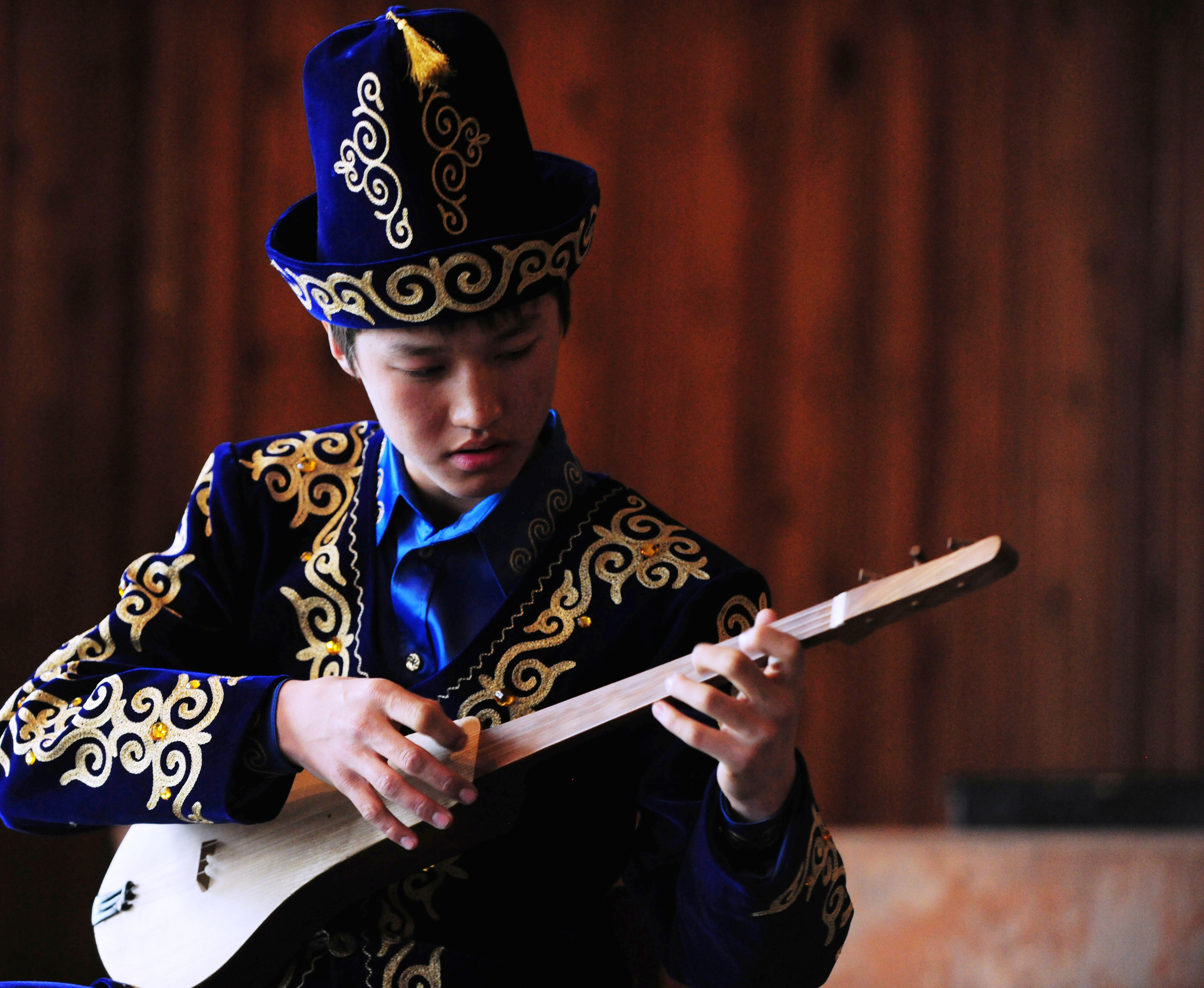 A Kyrgyz students plays the Komuz at the Abdraev Musical Boarding School in Bishkek, Kyrgyzstan, Jan. 27, 2010.